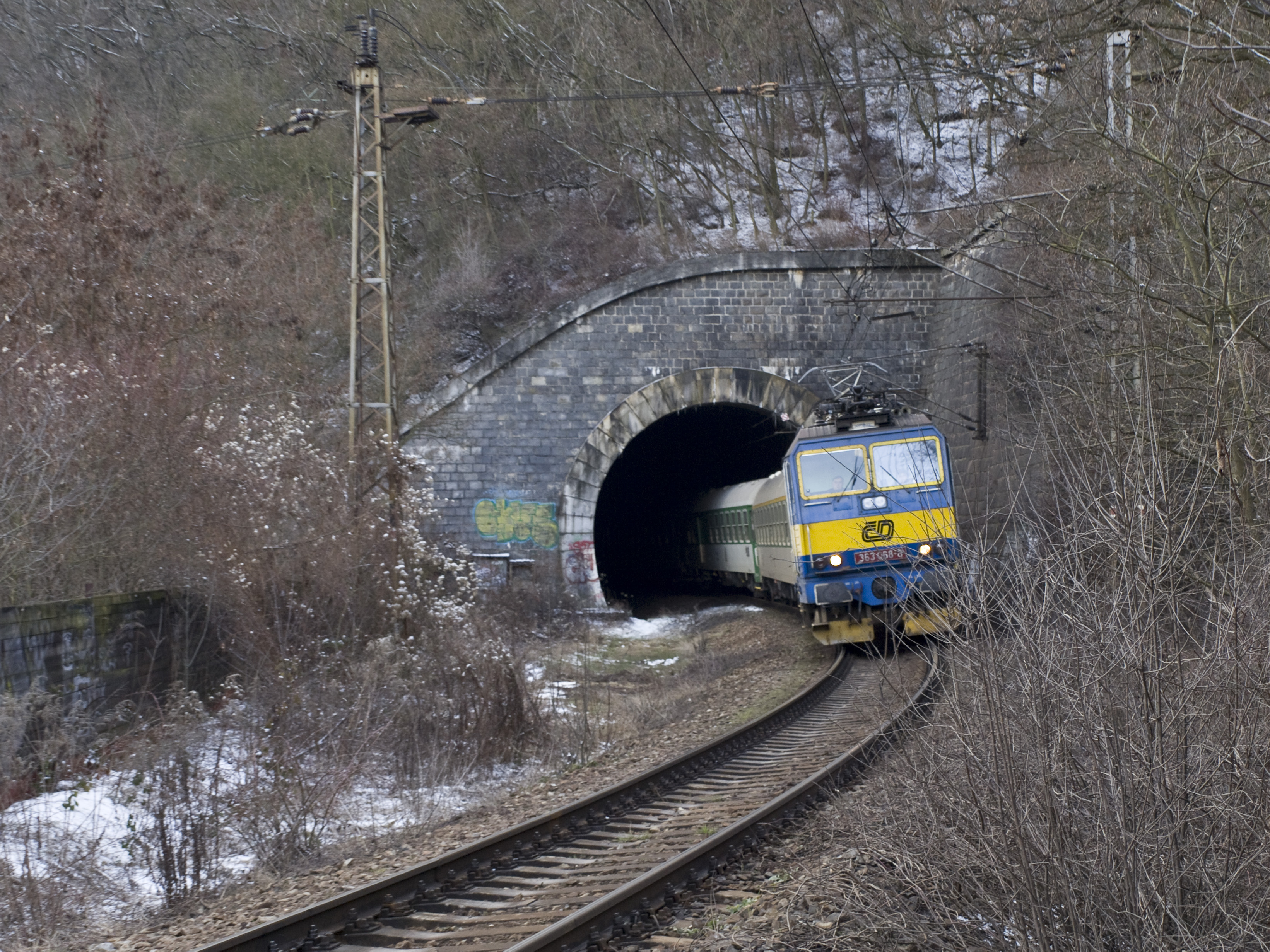 Locomotice 363-068, train bridge Braník – Malá Chuchle, Prague